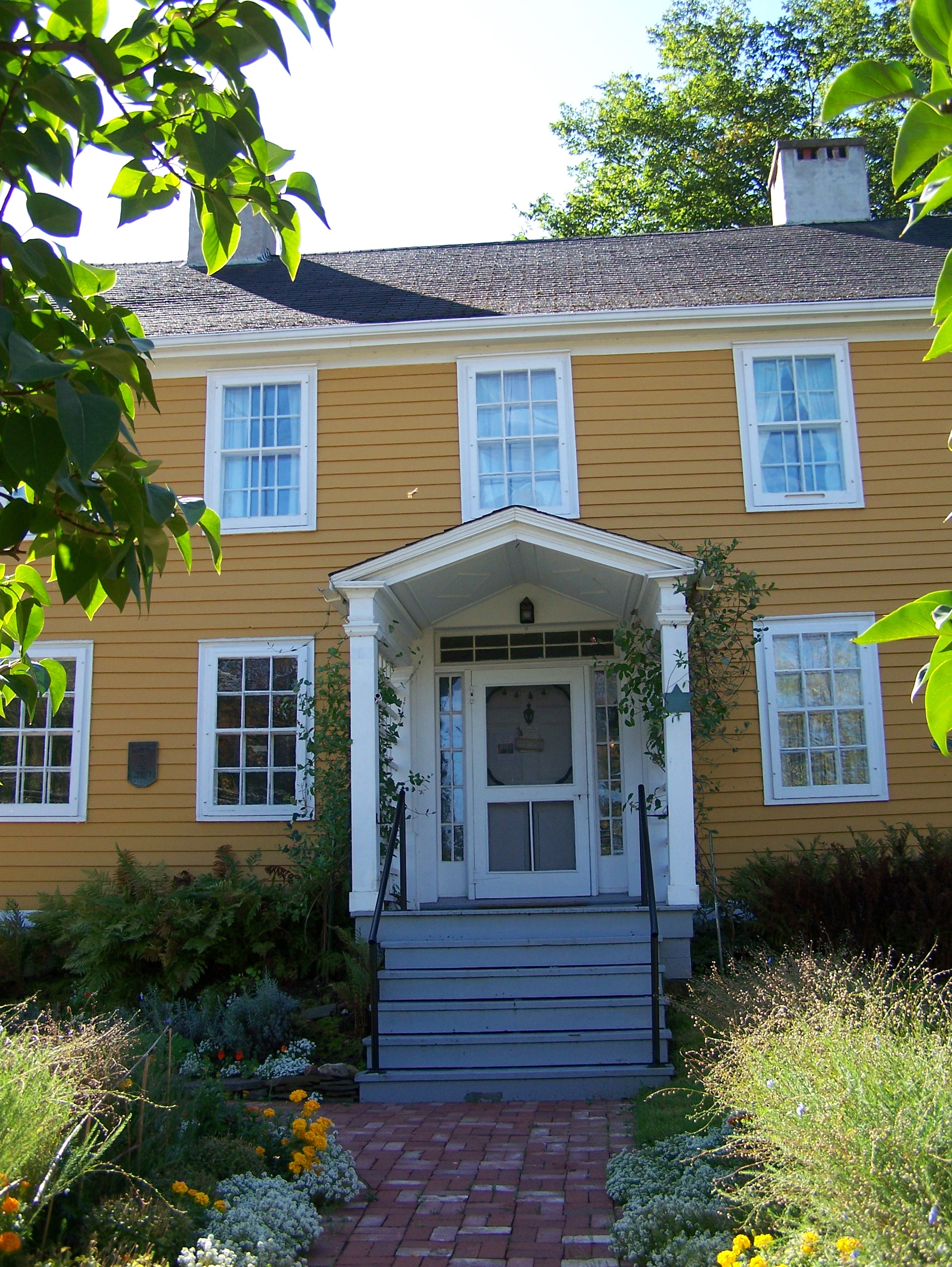 A colour photograph of the façade of the Randall House Museum in Wolfville, Nova Scotia.